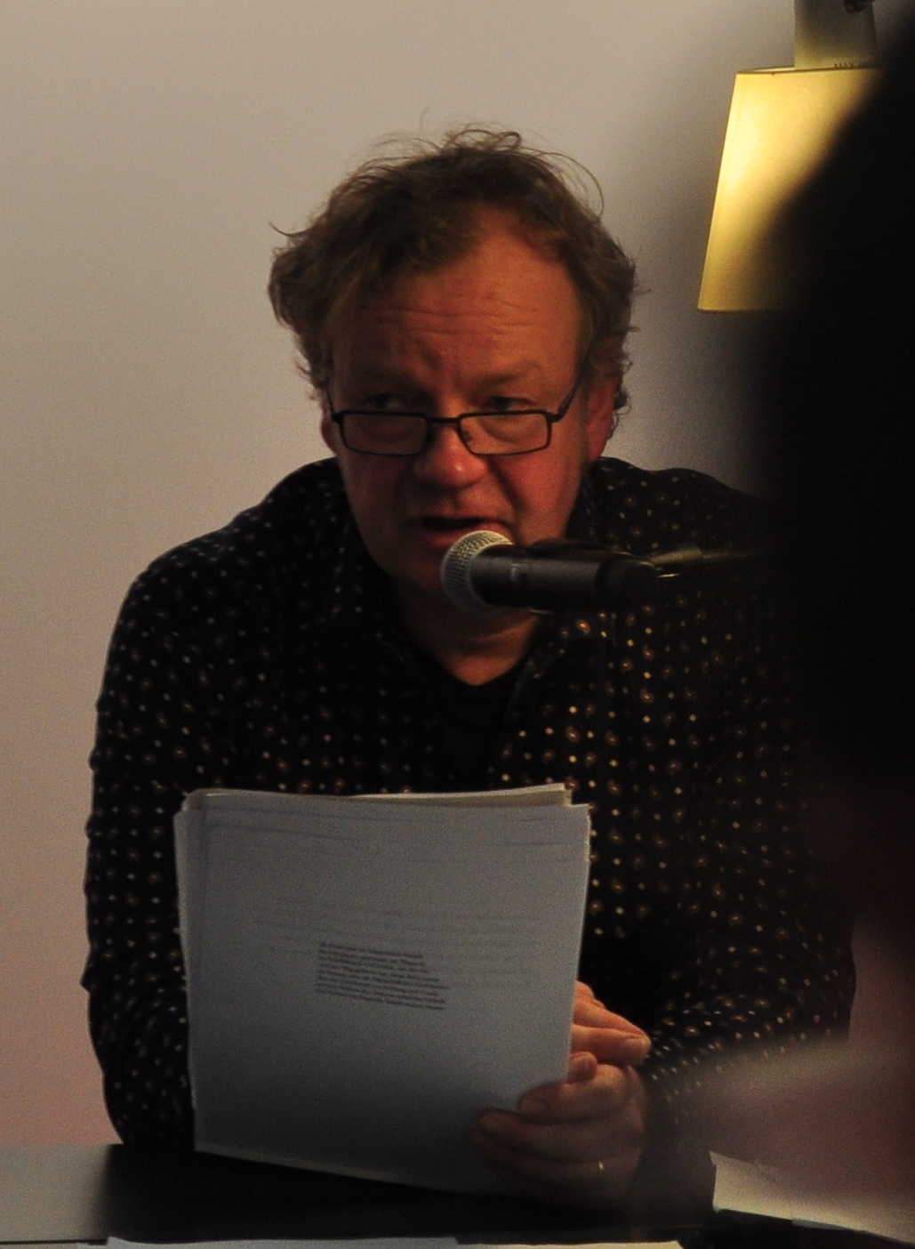 Willi Achten Frankfurter Buchmesse 2018